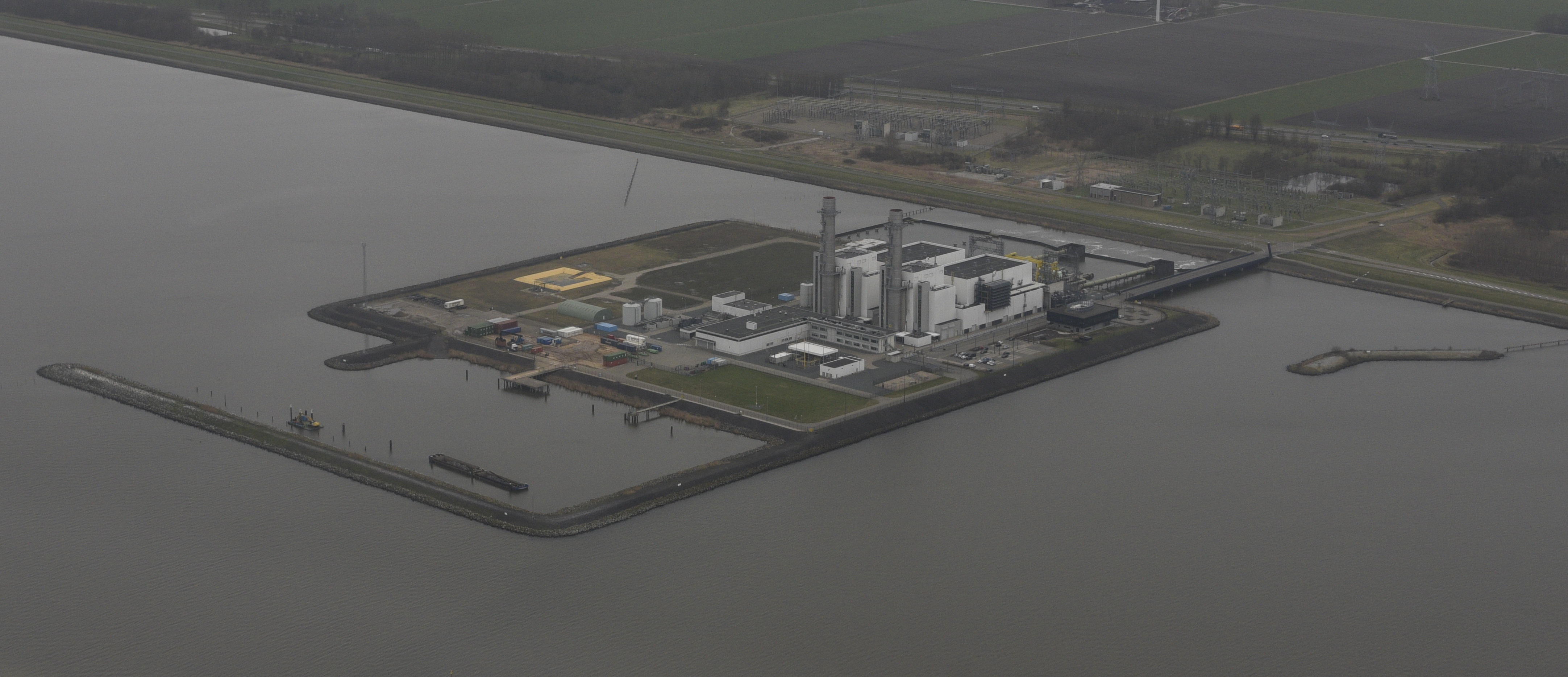 Maximacentrale